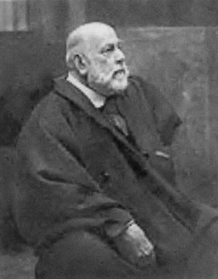 French painter Albert Besnard (1849-1934)